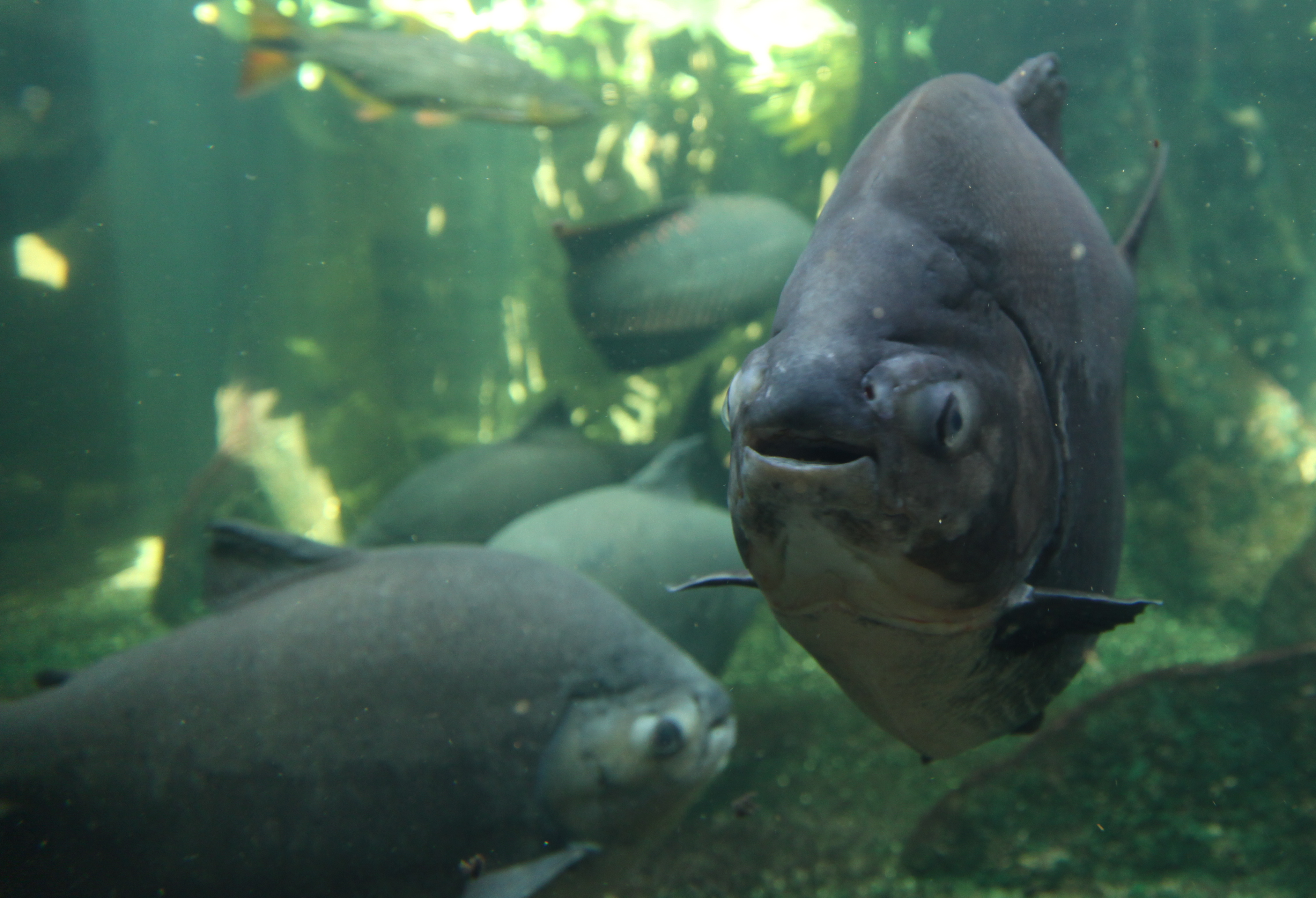 A school of Piaractus brachypomus at the Aquarium of the Zoologischer Garten, Berlin.